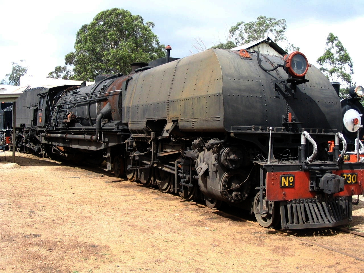 Class 20th Nbr 730